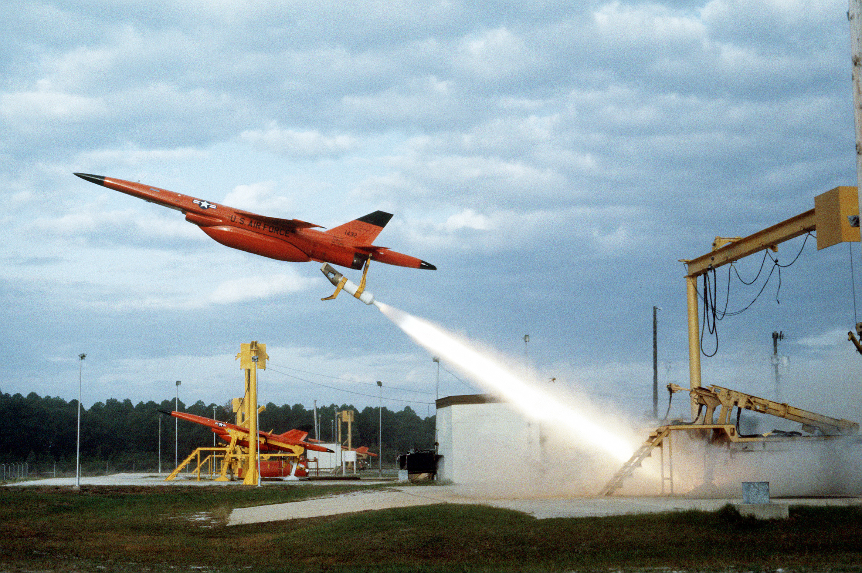 A U.S. Air Force Ryan BQM-34F Firebee II drone (s/n 70-1432) leaves its launch pad during the air-to-air combat training exercise "William Tell '82" at Tyndall Air Force Base, Florida (USA), on 9 October 1982. The drone served as a target for aircraft participating in the exercise.